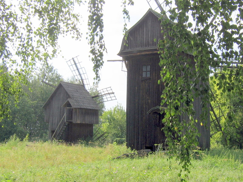 Windmill, Museum of folk architecture and way of life of Middle Naddnipryanschina